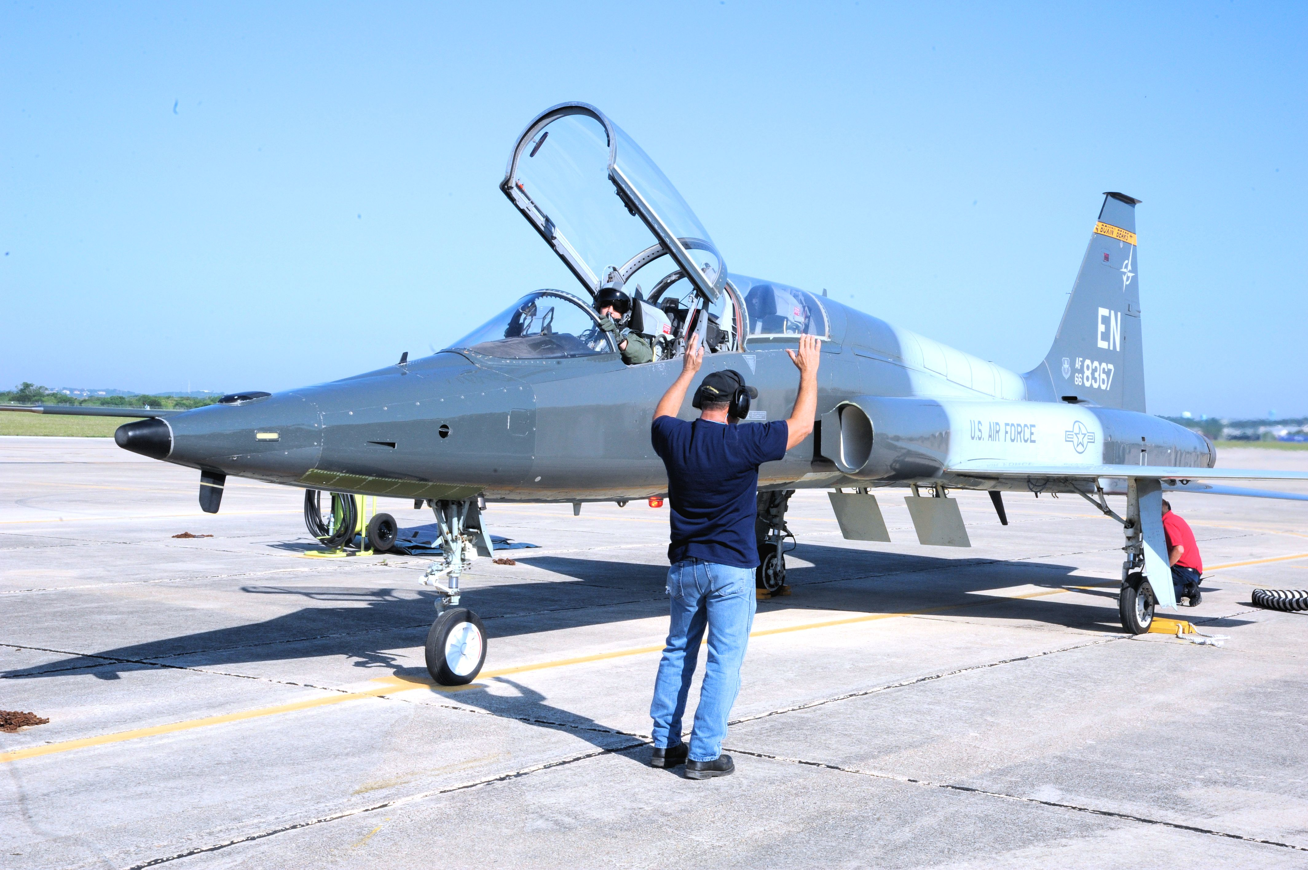 Keith Barnes, 571st Aircraft Maintenance Squadron contractor, performs final checks to the T-38 Talon prior to Lt. Col. Ripley Woodard, 415th Flight Test Flight commander, taking off from Joint Base San Antonio-Randolph, Texas May 17. The T-38 is being returned to Sheppard Air Force Base, Texas, after being modified by the 571st here. (U.S. Air Force photo by Rich McFadden)